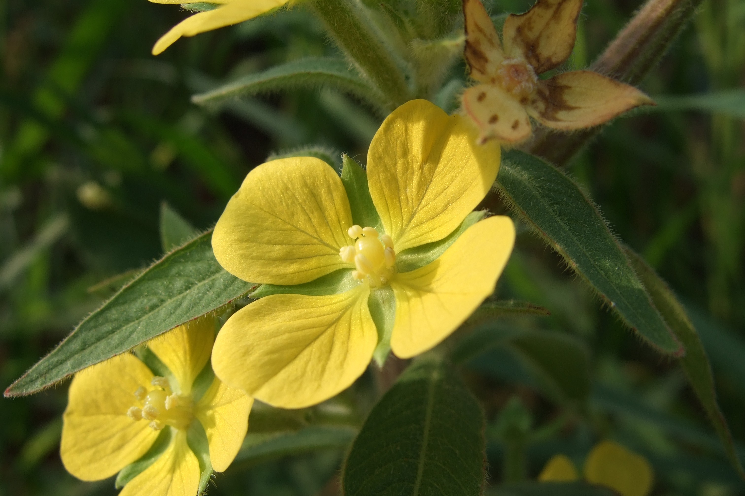 Ludwigia octovalvis; Chúi-teng-hiang; 水丁香